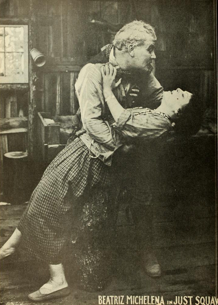 Advertisement in Moving Picture World, May 1919 for the American film Just Squaw (1919) with Beatriz Michelina and unidentified actor.